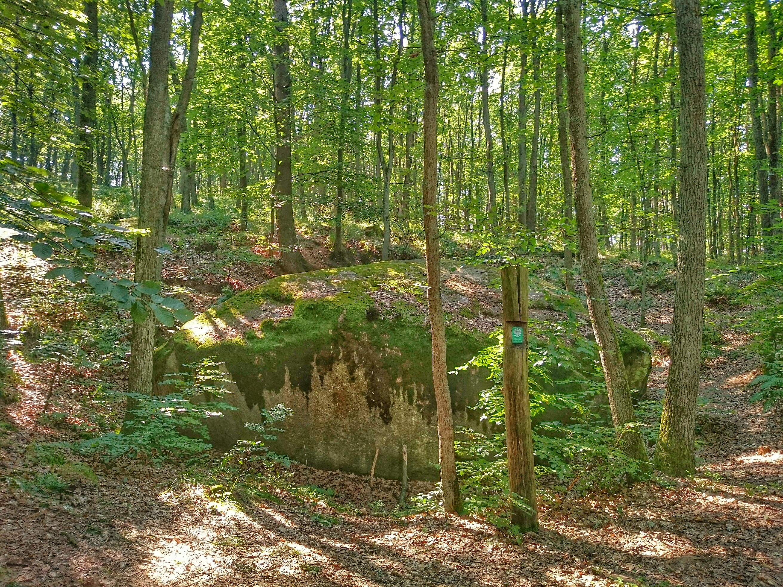 Large boulder, called 'Wide Stone', natural monument. It stands in a forest (natural rereserve Dąbrowa Krzymowska) and it's covered with moss.